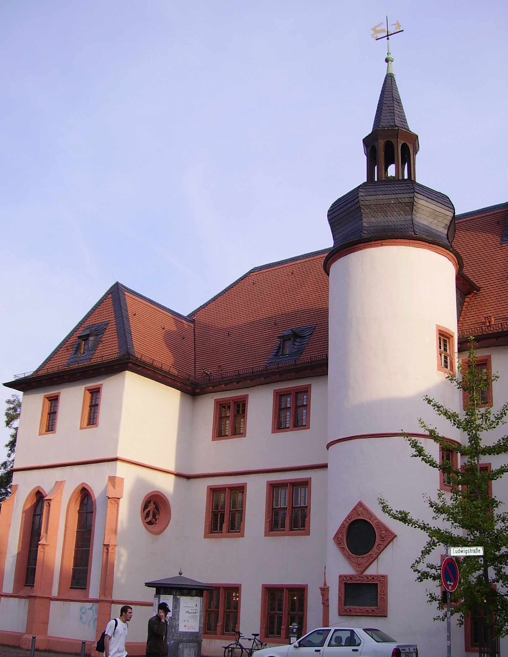 in Neustadt an der Weinstraße, Germany